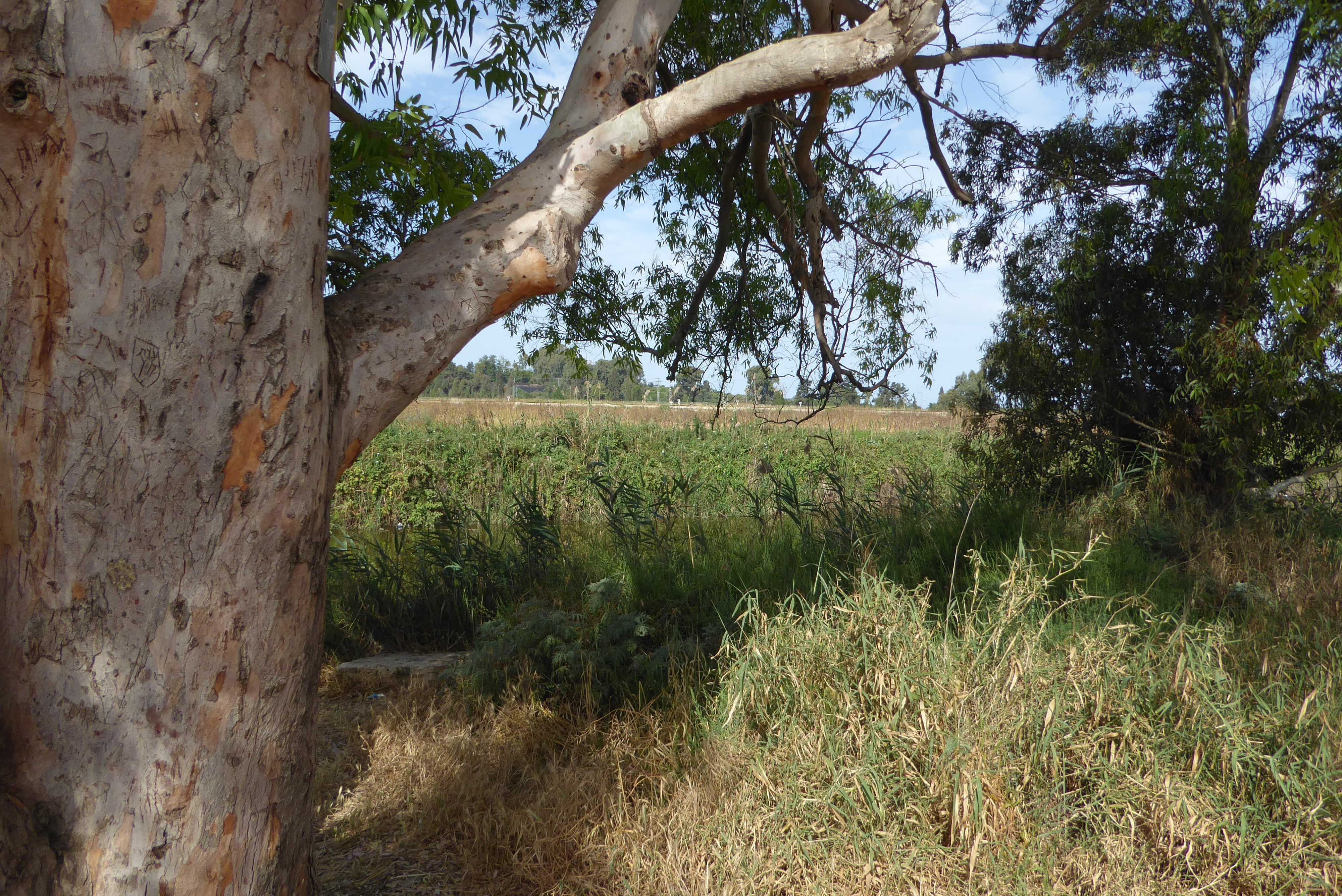 Alexander Stream